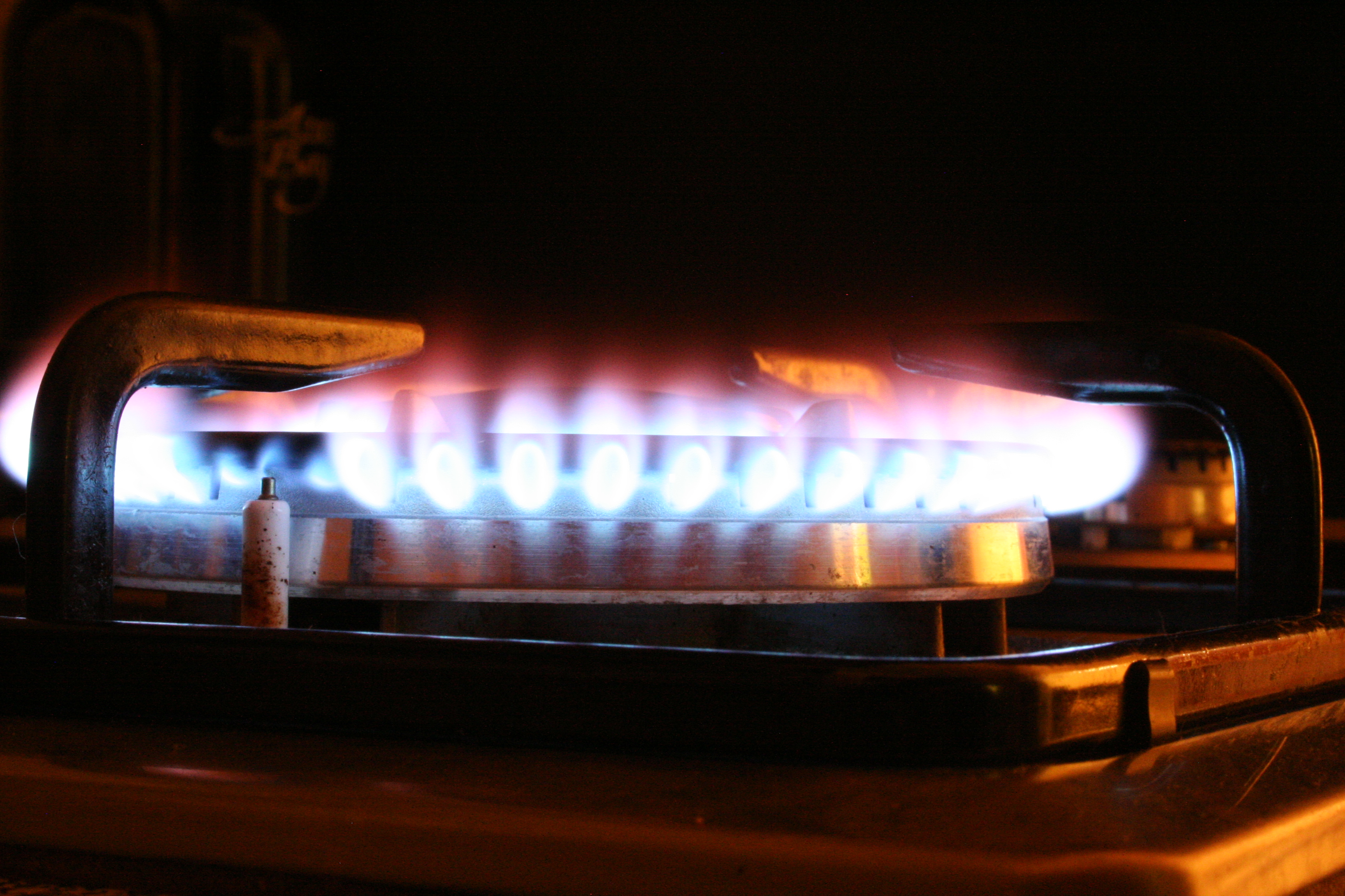 Gas cooker at dusk / Blue fire of the gas burning